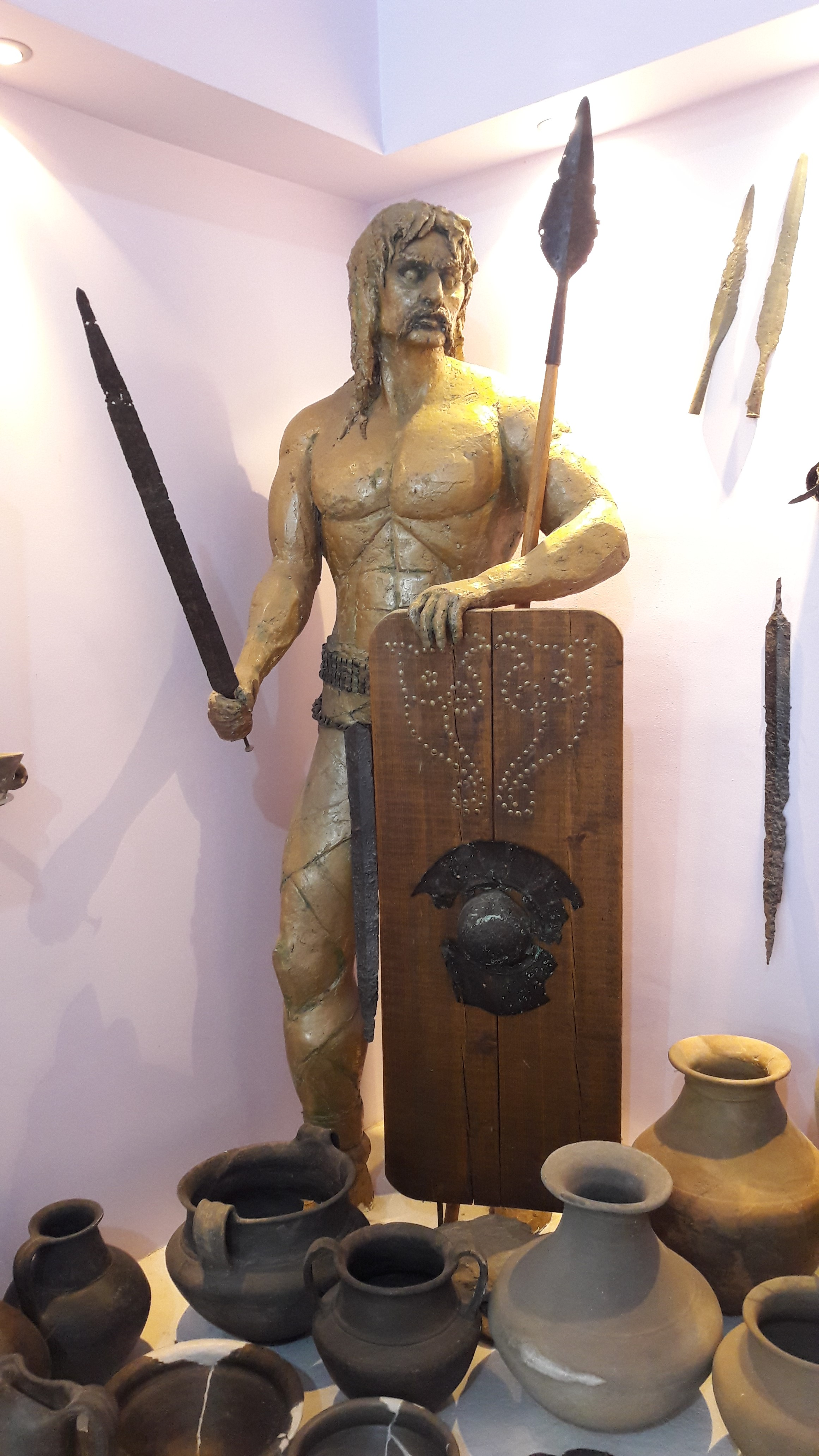 Depiction of a Scordisci warrior from National museum in Požarevac. He is shown with a spear, a sword and a shield. In front of him are samples of Celtic pottery.